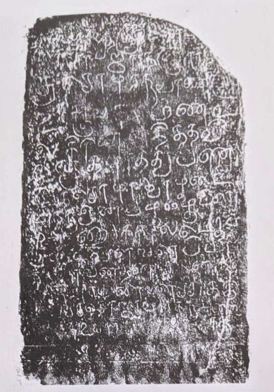 Medigiriya Tamil inscription - 11th century AD